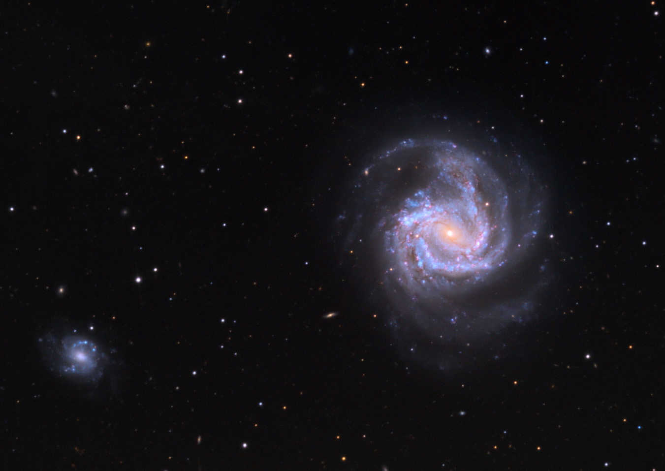 Deep exposures of Galaxies using the 0.8m Schulman Telescope at the Mount Lemmon SkyCenter Credit Line & Copyright Adam Block/Mount Lemmon SkyCenter/University of Arizona